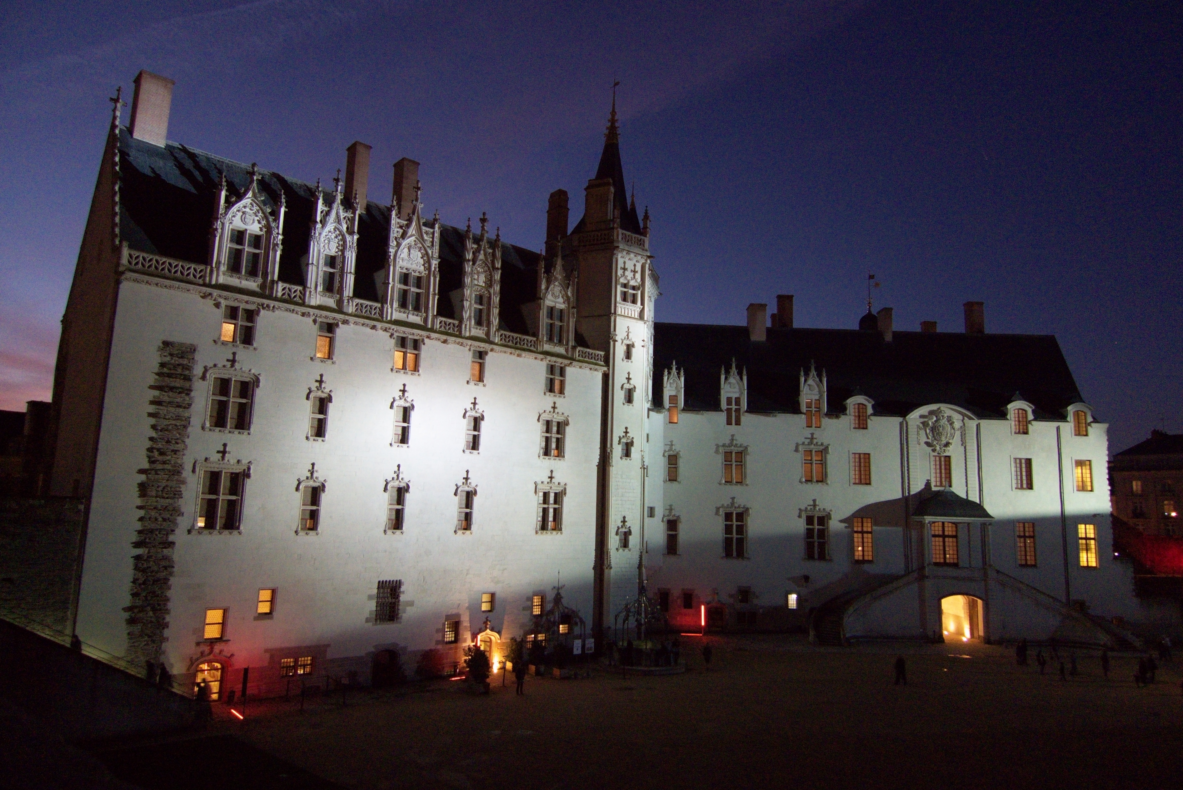 Castle of the Dukes of Brittany - Nantes